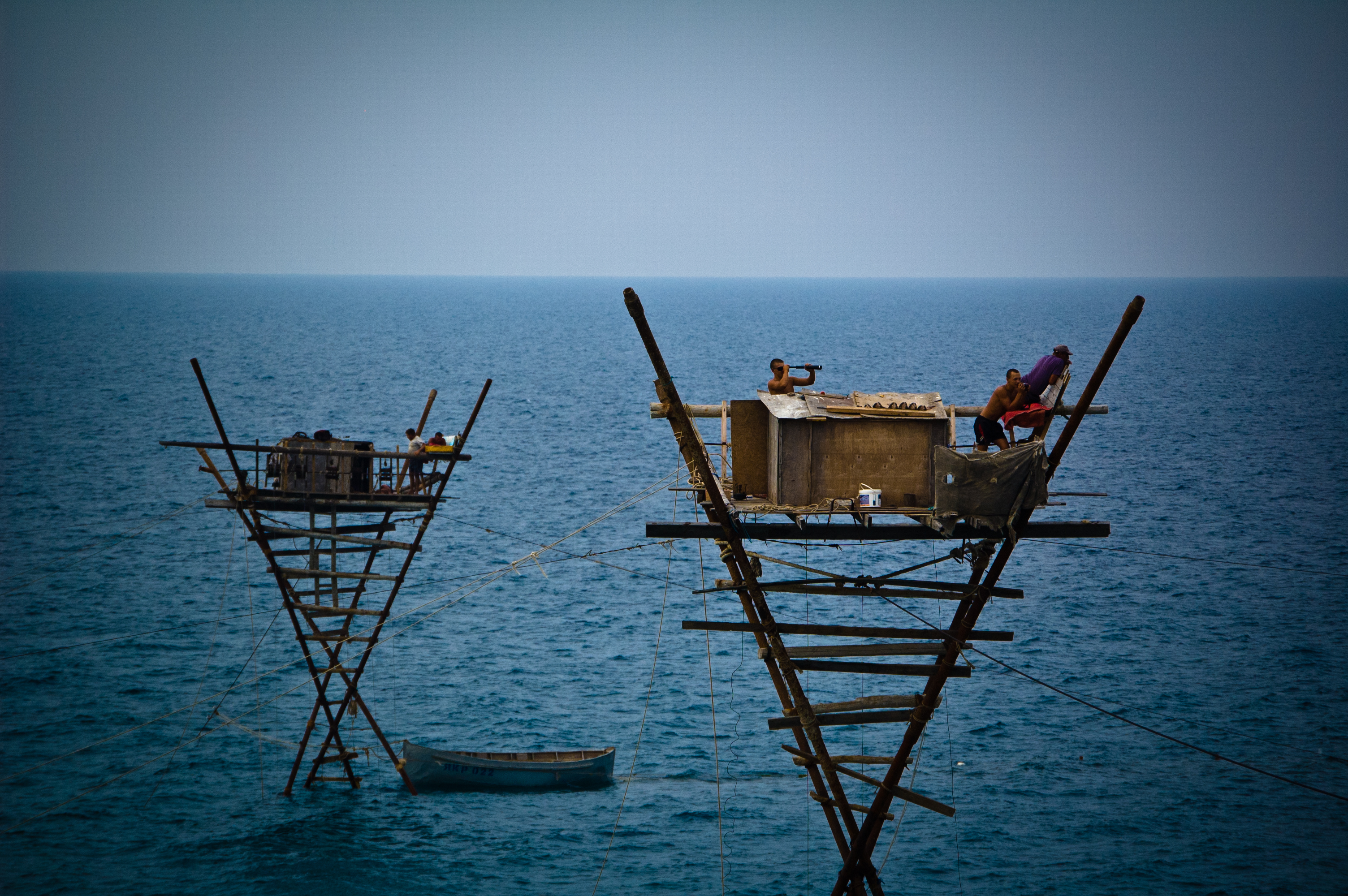 Fisherman sea huts on stilts in the Black Sea, near the Ukraine coast. There are people there, who seem to live there and watch for something; every man has binoculars or a telescope.